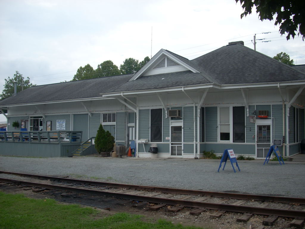 Blue Ridge Depot, Blue Ridge (Fannin County, South Carolina)